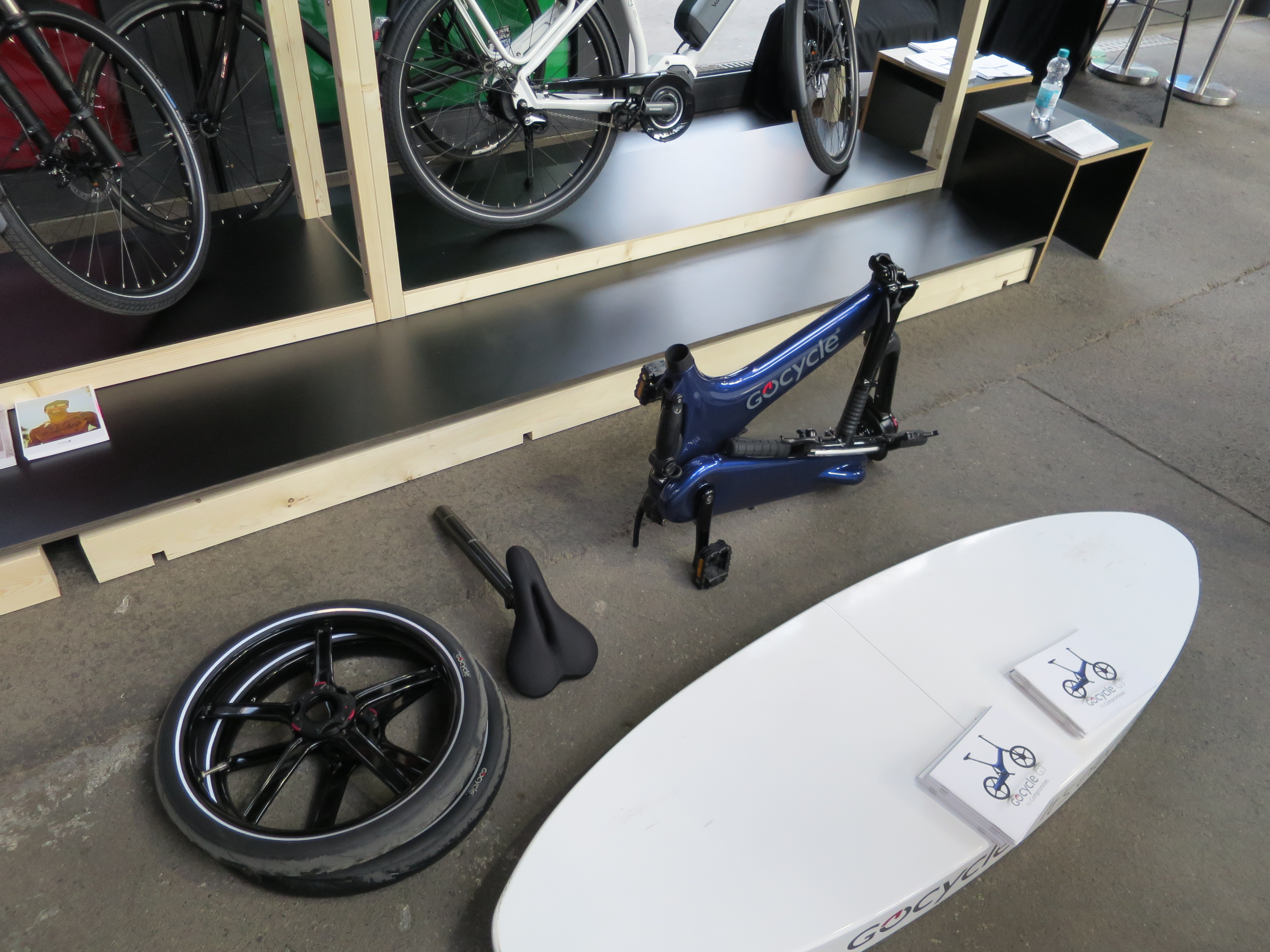 GoCycle folding bike Berliner Fahrradschau 2017.